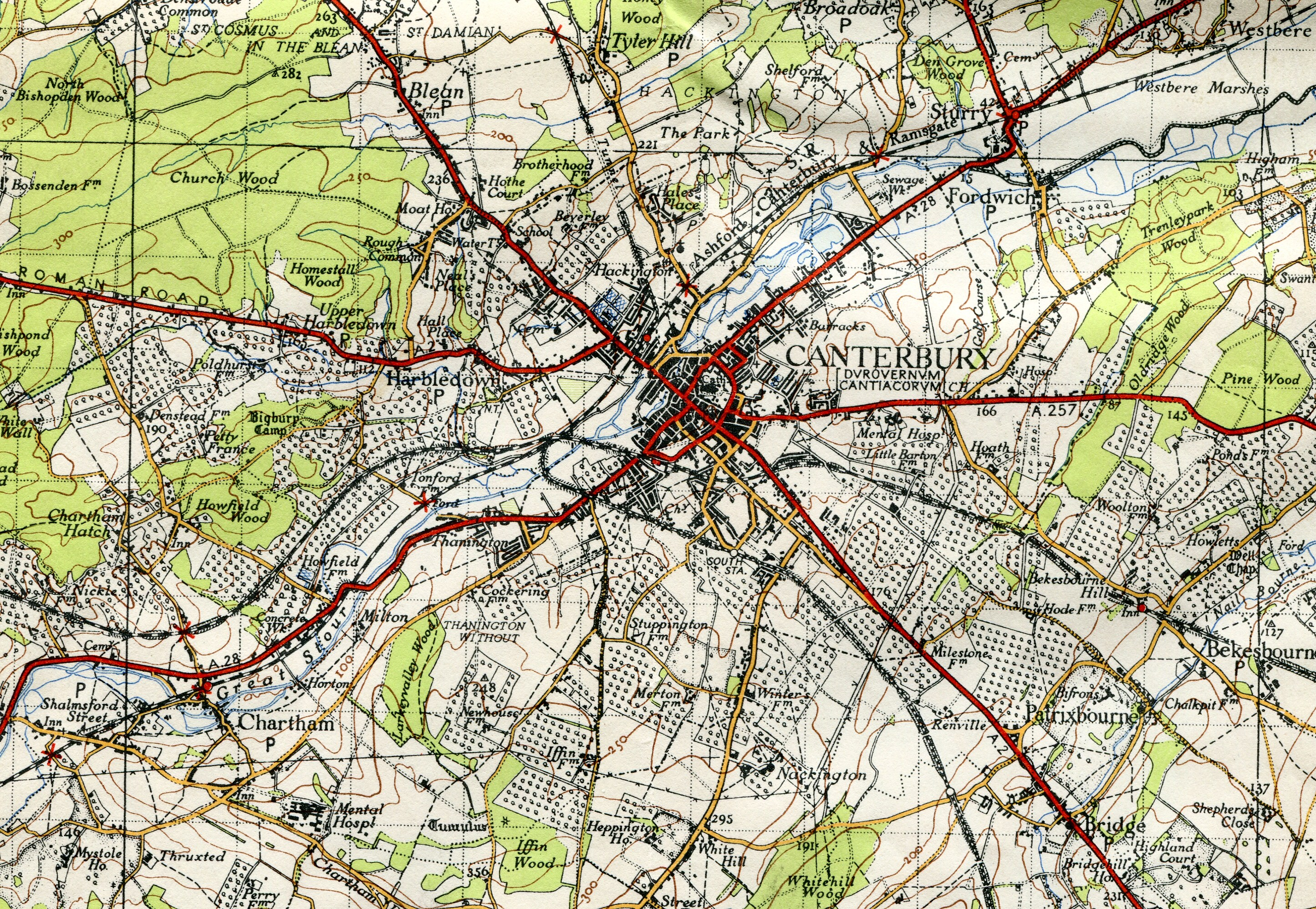 Orchards around Canterbury, Kent on 1945 one-inch Ordnance Survey map sheet 173